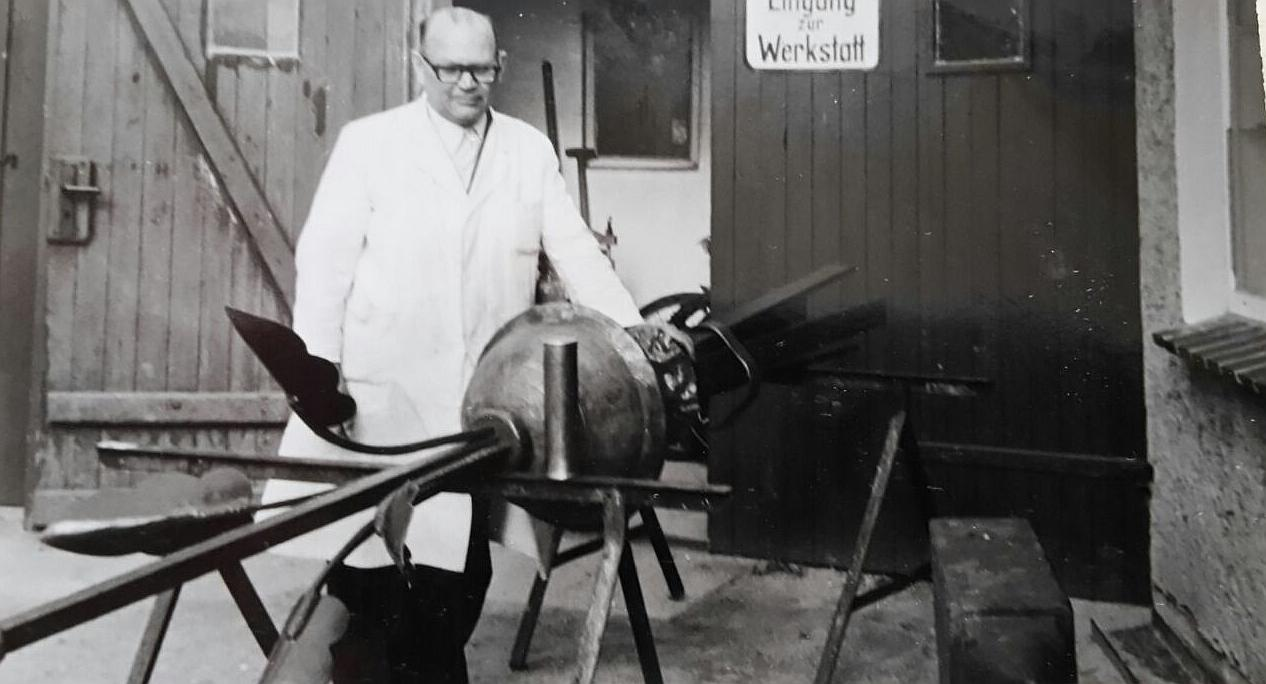 Kröpelin: Historical documents are deposited in the capsule of the church steeple in 1976. On the picture Mister Georg Böckenhauer, house painter and decorator in Kröpelin.